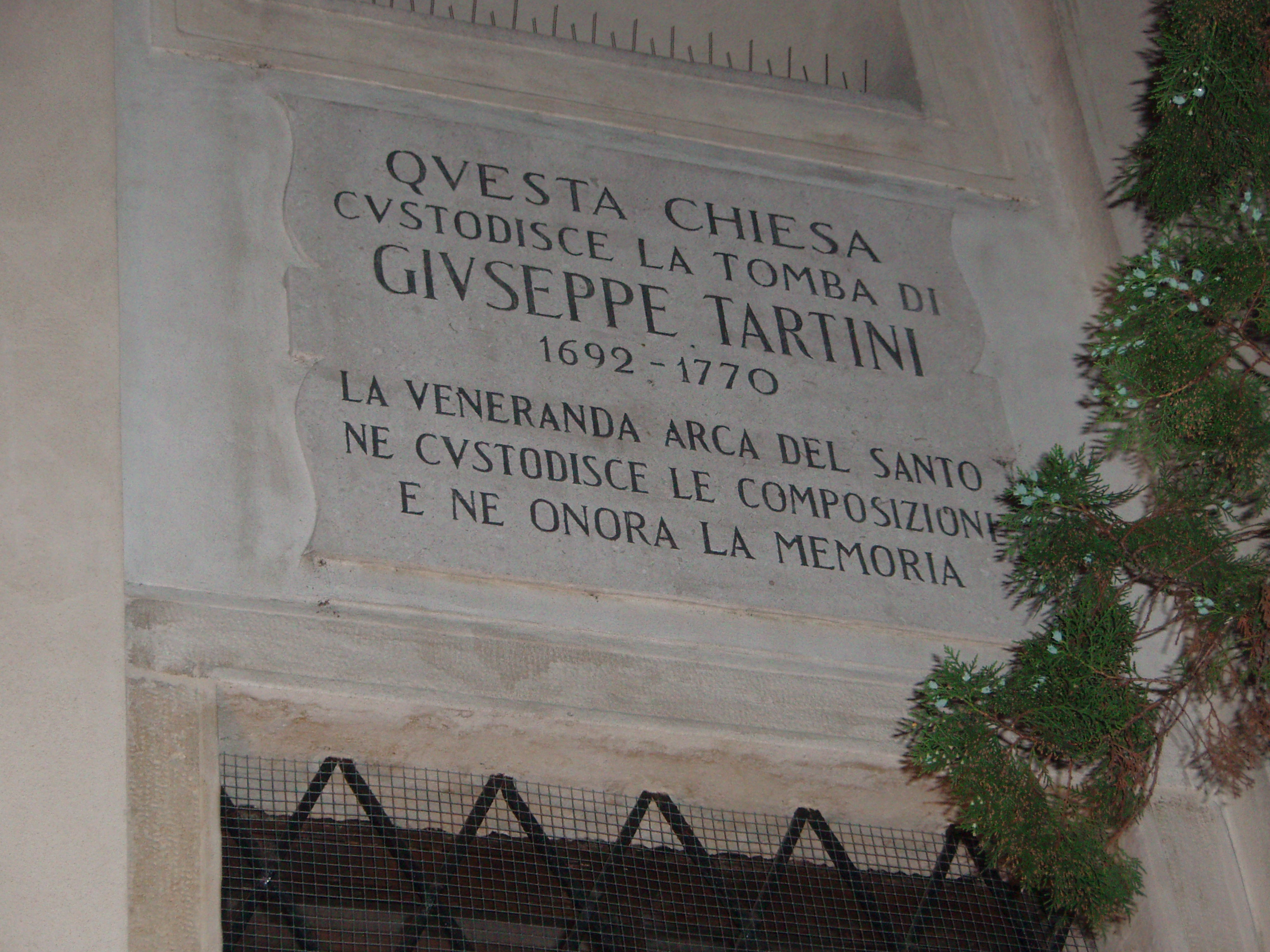 Memorial tablet of composer Giuseppe Tartini on the wall of Saint Catherine Church in Padova (Chiesa di Santa Caterina), where he is buried.